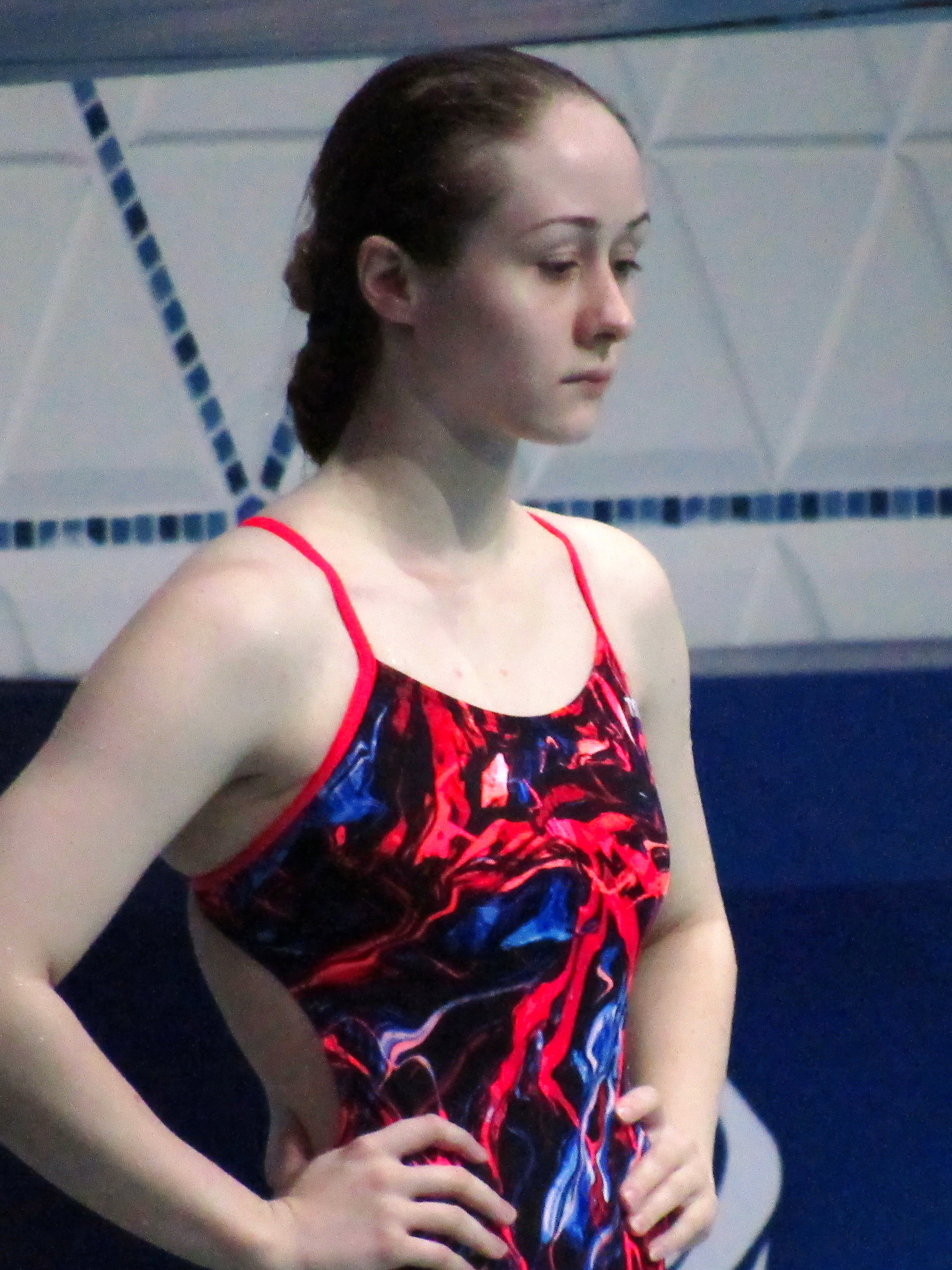 Belarusian diver Alena Khamulkina at the 2019 European Diving Championships in Kyiv.